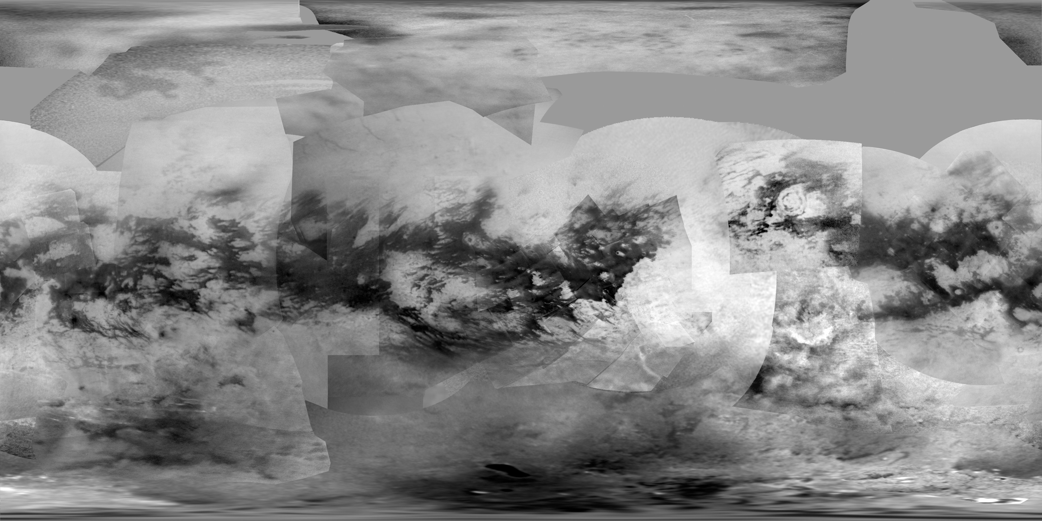 This global digital map of Saturn's moon Titan was created using images taken by the Cassini spacecraft's imaging science subsystem (ISS). The images were taken using a filter centered at 938 nanometers, allowing researchers to examine variations in albedo (or inherent brightness) variations across the surface of Titan. Because of the scattering of light by Titan's dense atmosphere, no topographic shading is visible in these images. The map is an equidistant projection and has a scale of 2.5 miles (4 kilometers) per pixel. Actual resolution varies greatly across the map, with the best coverage (close to the map scale) along the equator near the center of the map at 180 degrees west longitude and near the left and right edges at 0 and 360 degrees west longitude. The worst coverage is on the leading hemisphere (particularly around 120 degrees west longitude) and in some northern latitudes. Coverage in the northern polar region continues to improve as the north pole comes out of shadow after Titan's northern vernal equinox in August 2009. Large dark areas, now known to be liquid-hydrocarbon-filled lakes, have been documented at high latitudes (see PIA11146). This map is an update to the version released in February 2009 (see PIA11149). Data from the last two years, including the most recent data in the map from April 2011, have improved coverage in the southern trailing hemisphere and over portions of the north polar region. The mean radius of Titan used for projection of this map is 1,600 miles (2,575 kilometers). Titan is assumed to be spherical until a control network -- or model of the moon's shape based on multiple images tied together at defined points on the surface -- is created at some point in the future.